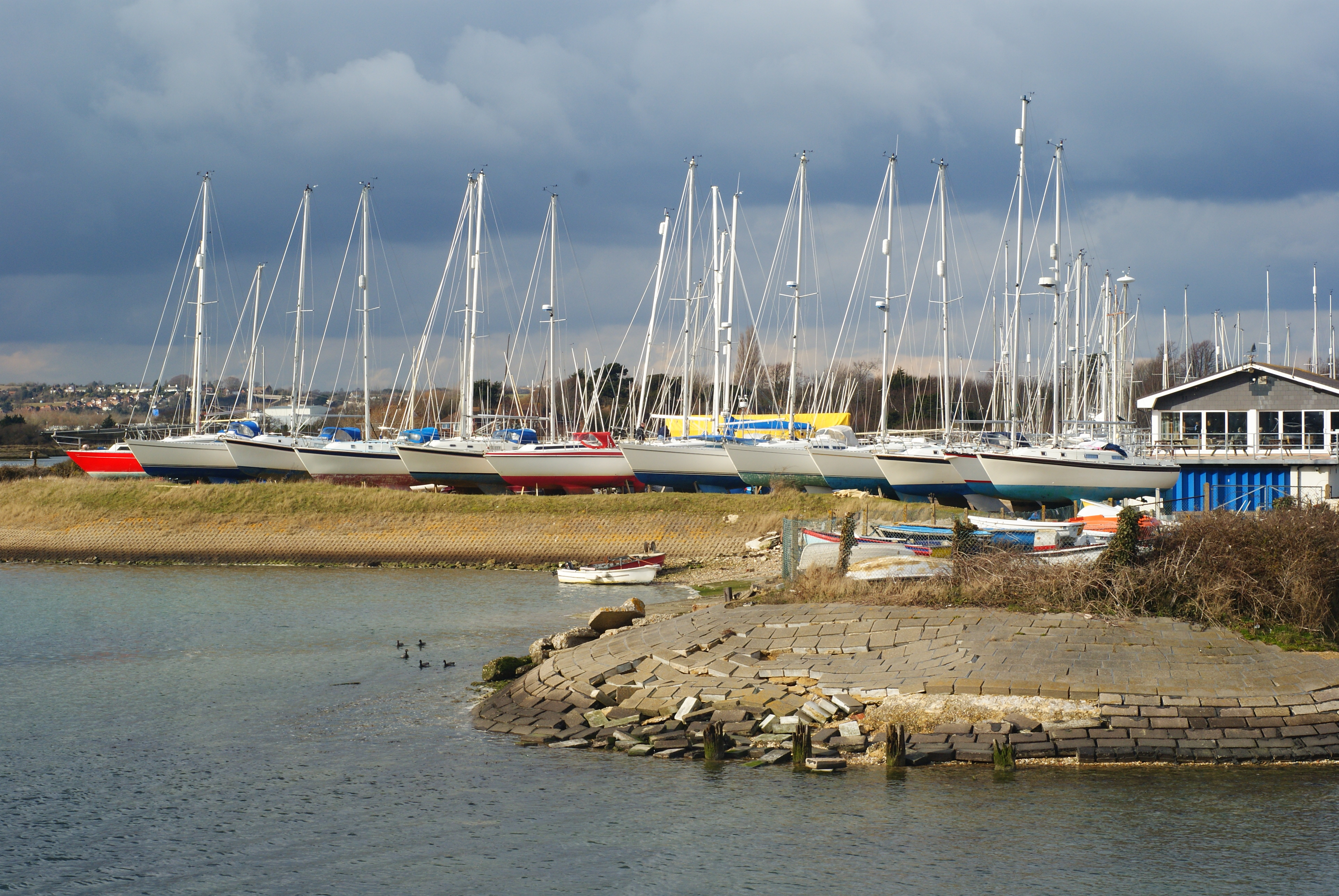 Langstone Sailing Club, Hampshire The club is located at the Langstone end of Langstone Bridge, and has ready access to both Langstone and Chichester harbours.